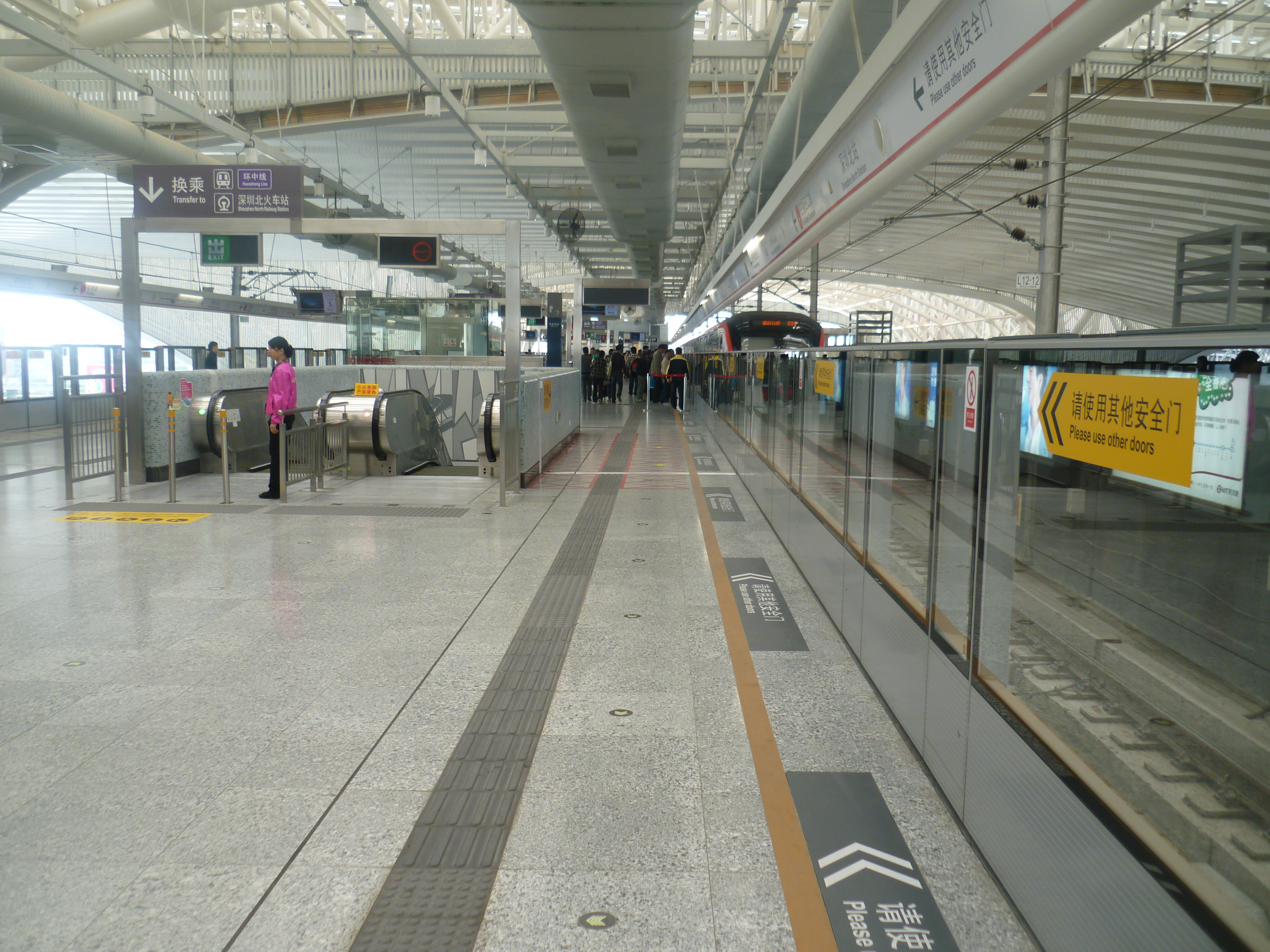 Platform of Shenzhen North Station, Long Hua Line.